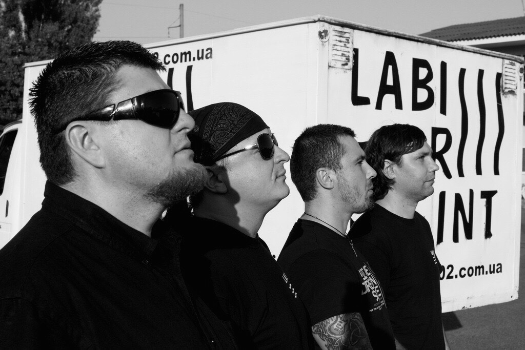 labirint 02